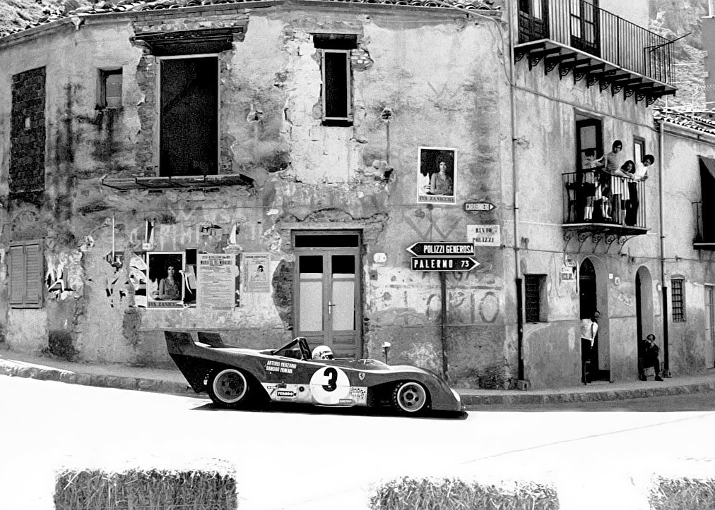 Entry #3 and WINNER at Targa Florio on 21 May 1972 was the 1972 Ferrari 312 PB s/n 0884 driven by Arturo Merzario and Sandro Munari. [1]